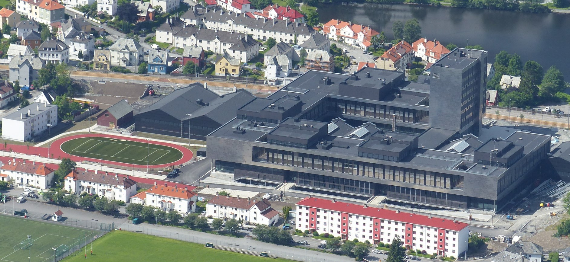 Bergen University College - campus Kronstad